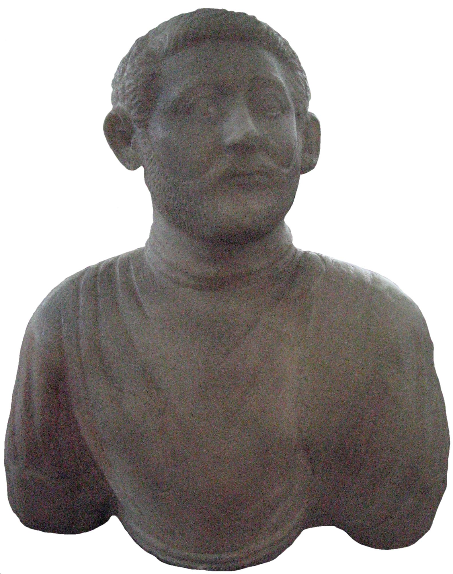 Buste en pierre, Suse, Sassanide. National Museum of Iran.